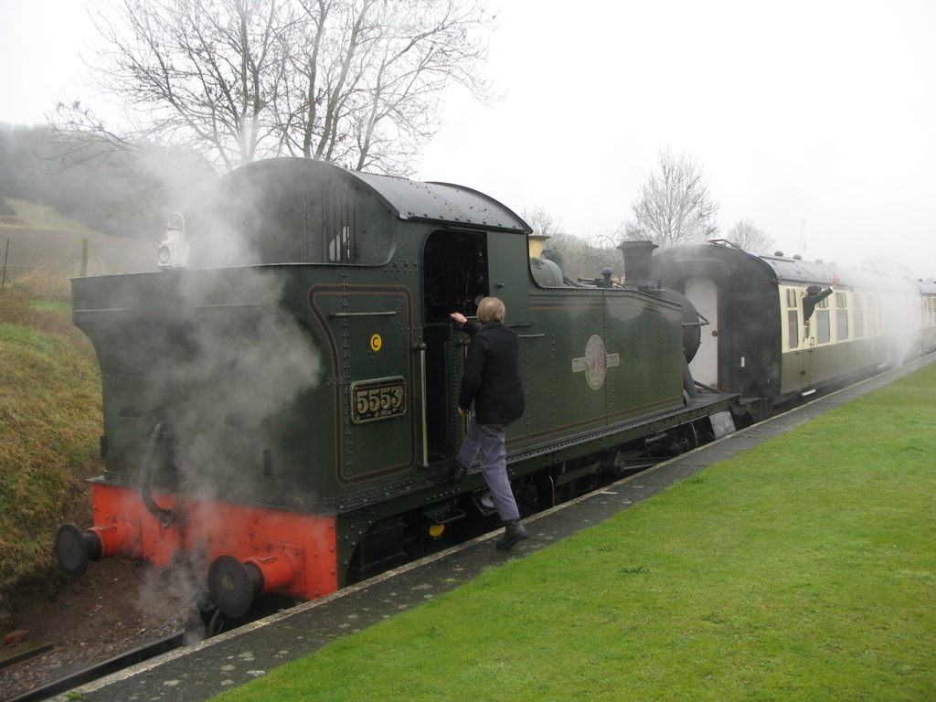 Great Western Railway 4575 Class number 5553 restarts its train to Minehead at Washford station, Somerset, England. The cold winter's day means that the steam form the locomotive and the carriage heating hangs in the air around the platform.